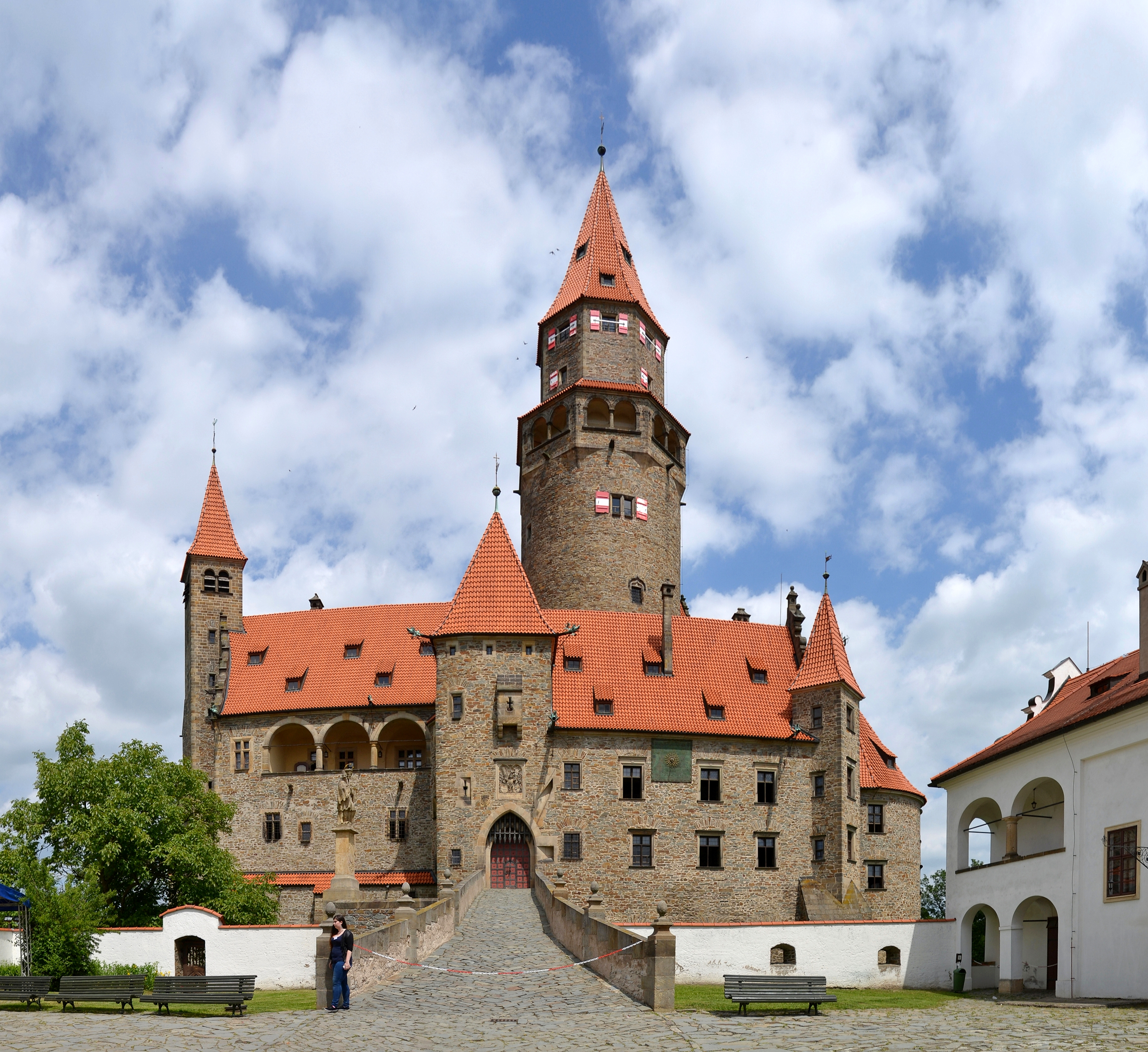 Castle Bouzov (Busau), Czech Republic